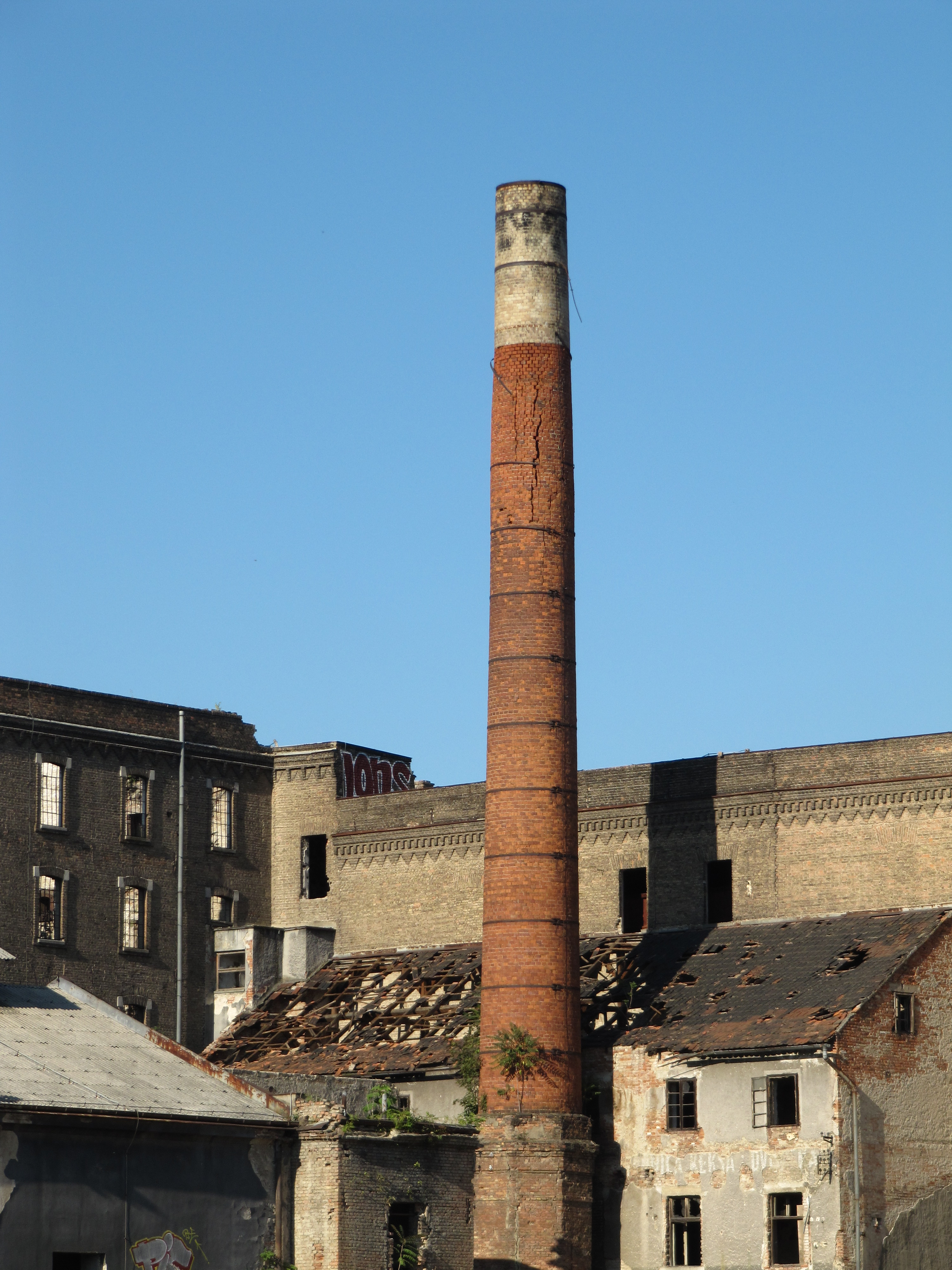 Paromlin building in Zagreb, Croatia.